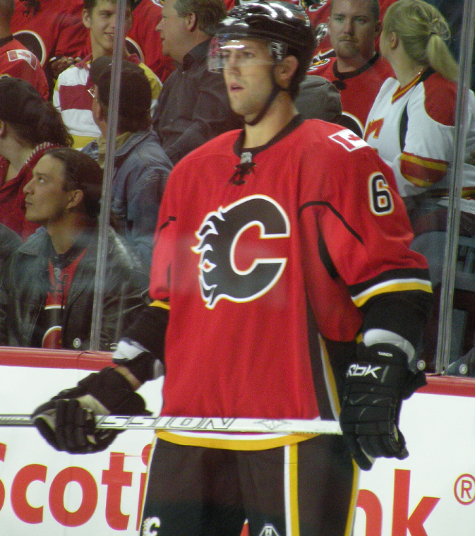 Cory Sarich of the Calgary Flames during a National Hockey League exhibition game, September 23, 2008.